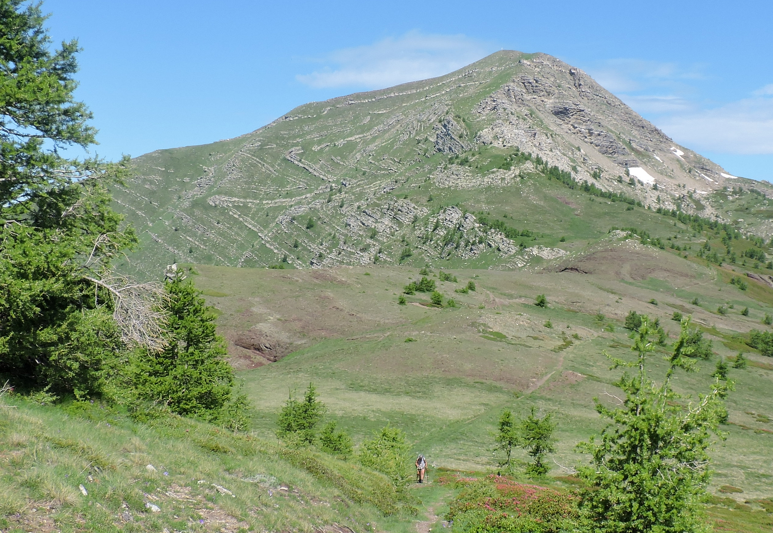 Monte Bertrand and Colla Rossa (Ligurian Alps)